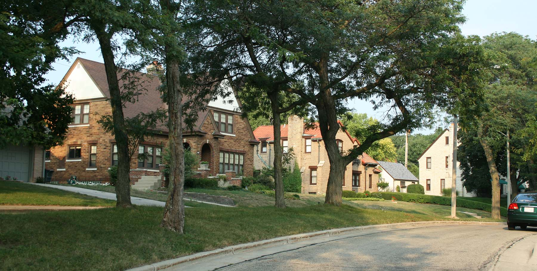 Washington Highlands Historic District, Registered Historic Place, Wauwatosa, Wisconsin.